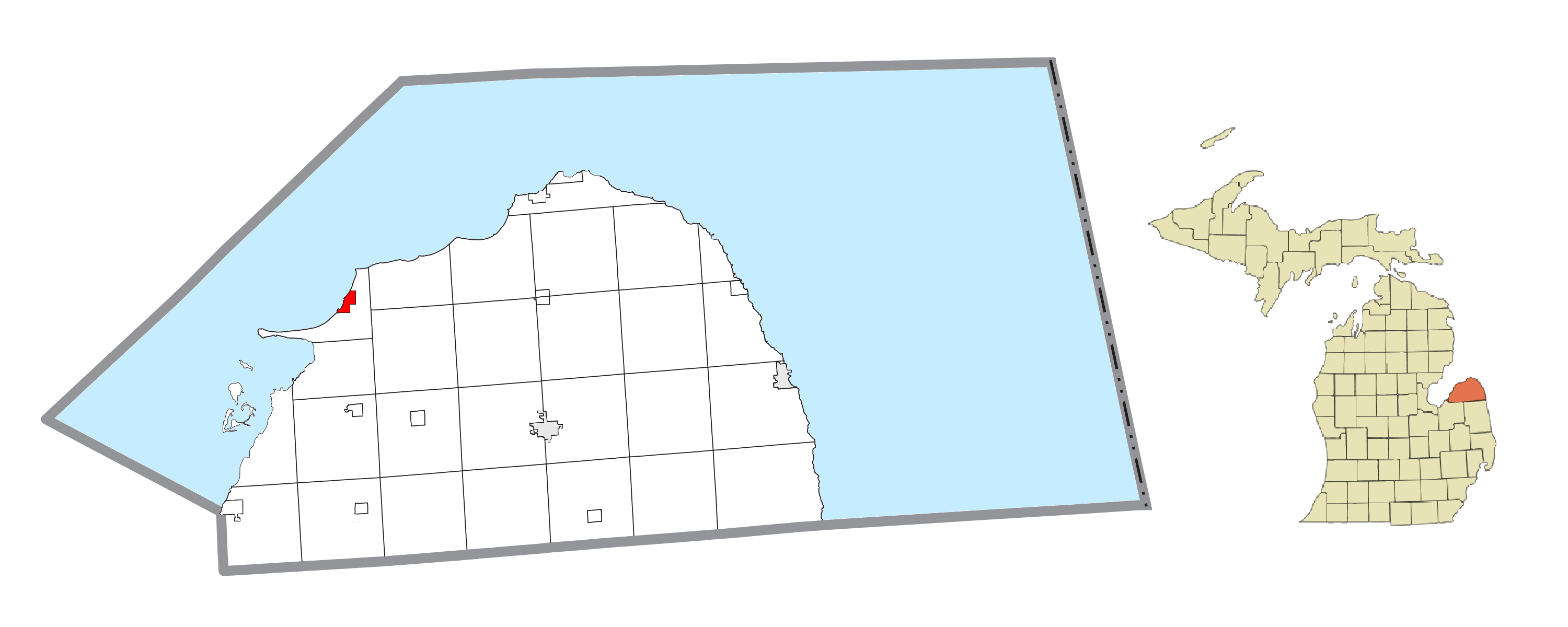 Caseville, MI